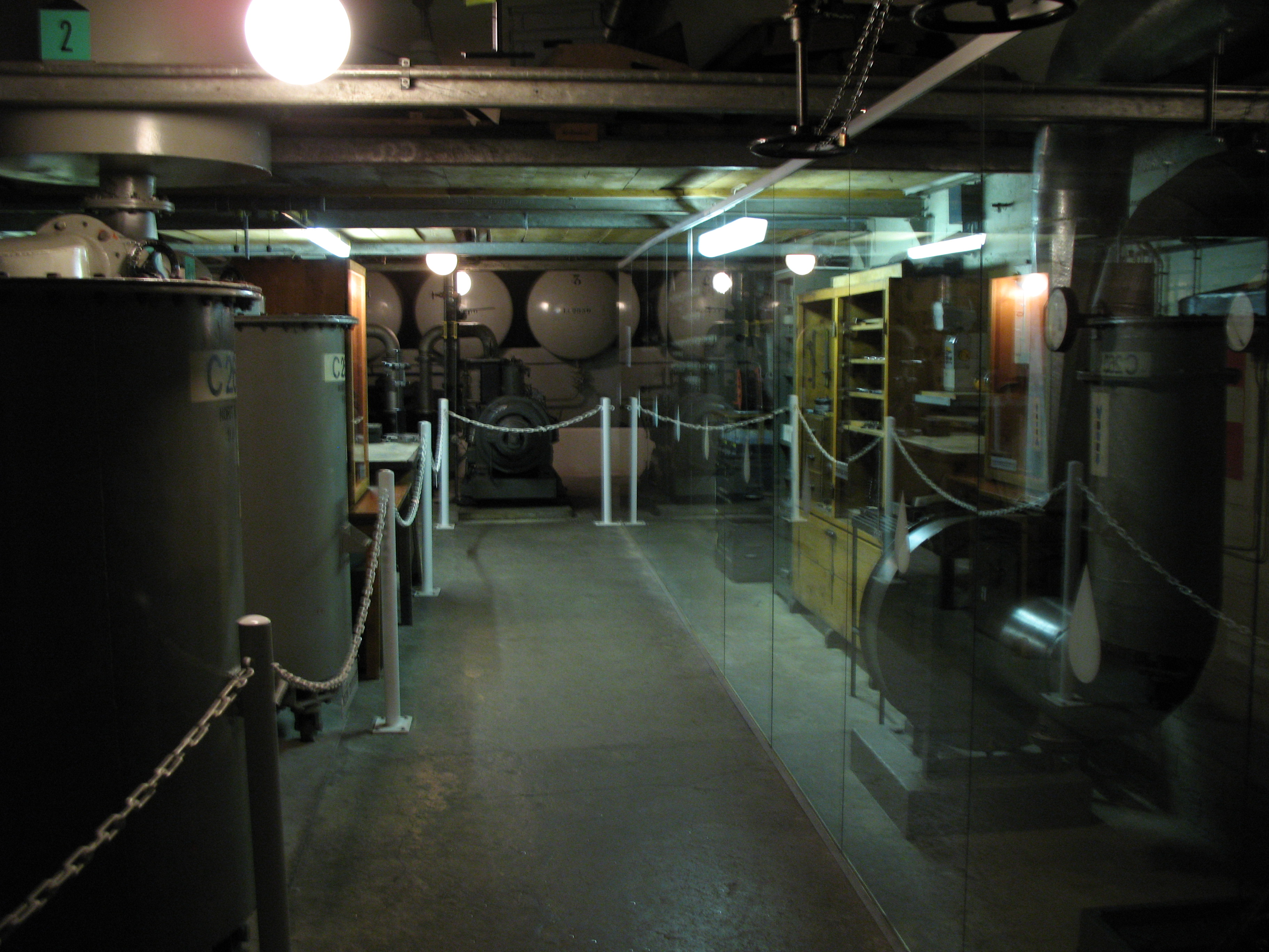 Machine room, Fort Fürigen, Switzerland